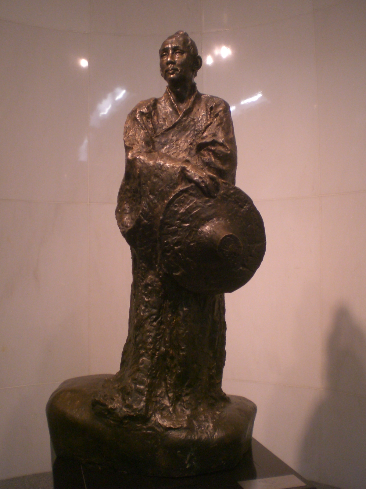 尖沙咀 中國男性 藝術中的中國人物 男性雕塑 明朝藝術 朱耷